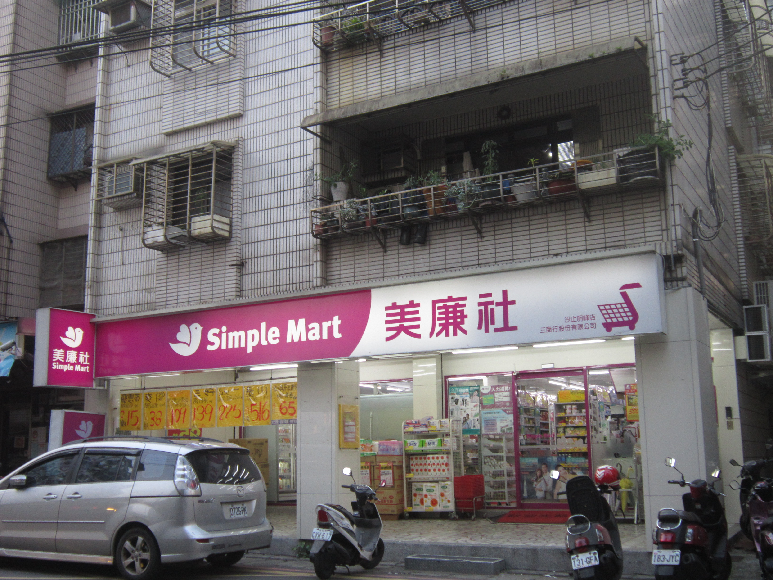 Simple Mart Xizhi Mingfeng Store.